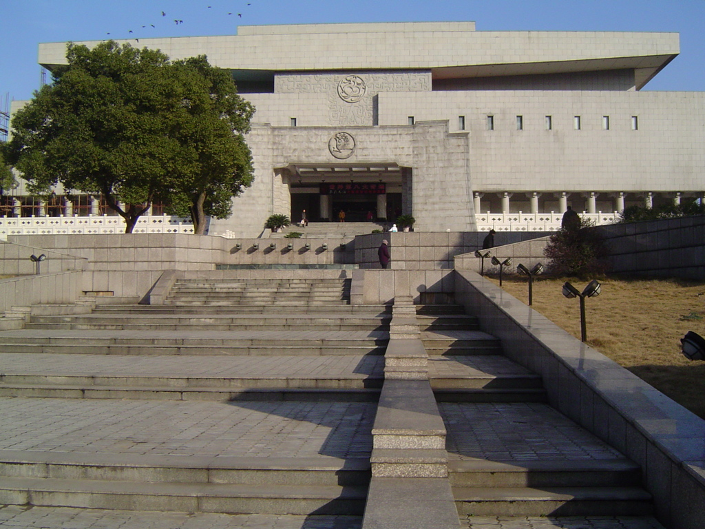 Hunan Provincial Museum in Changsha, China